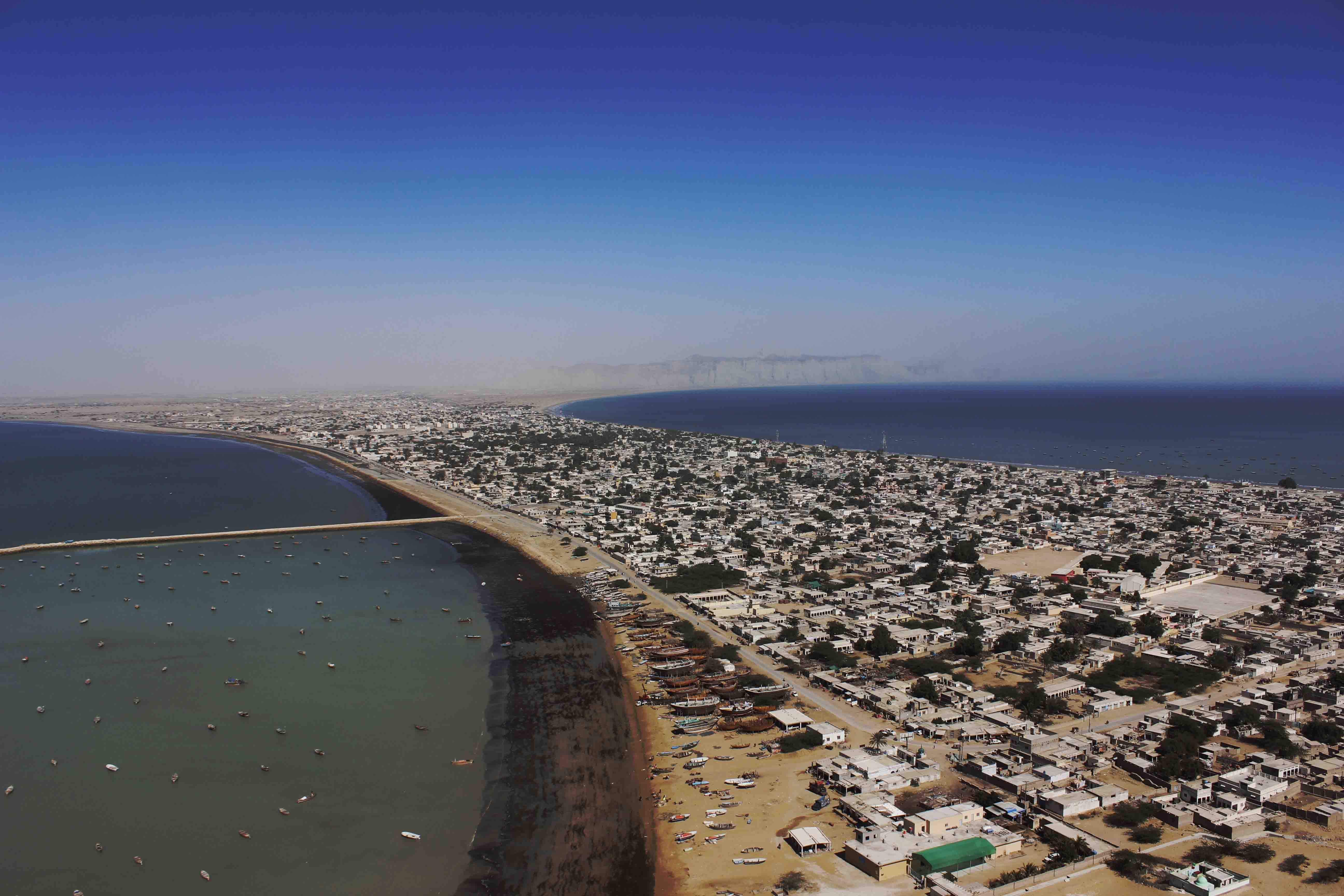 A top view of Gwadar city, as you can see the city has seashores on both sides and in the mid the Gwadar is situated. a view which mesmerize your eyes